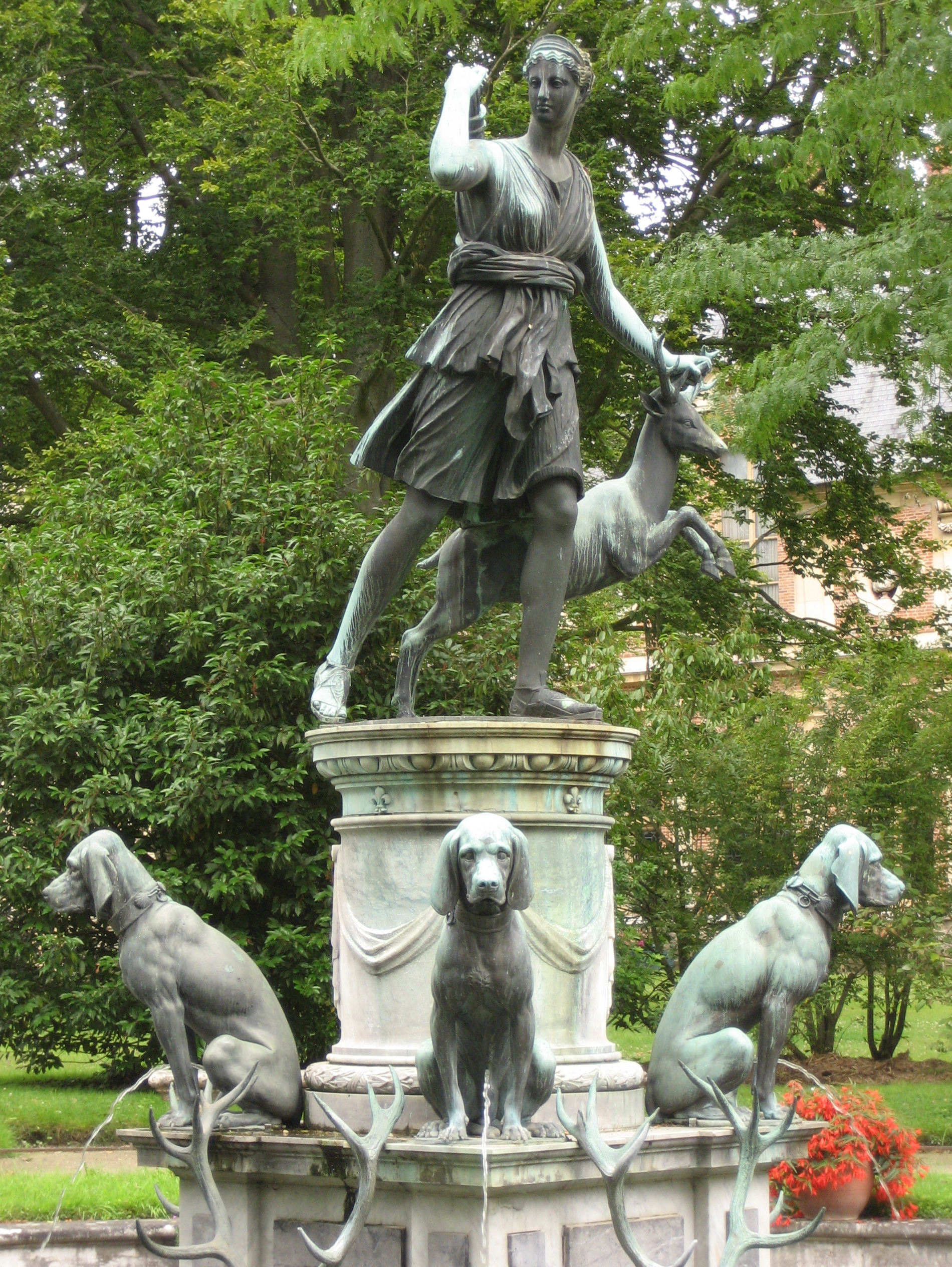 bronze copy of Diana of Versailles in the garden of the Fontainebleau castle